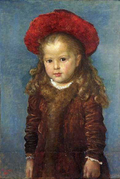 Zoe Ionides, 1881, Oil painting on canvas Victoria and Albert Museum, London, museum no. CAI.1145 (Link)